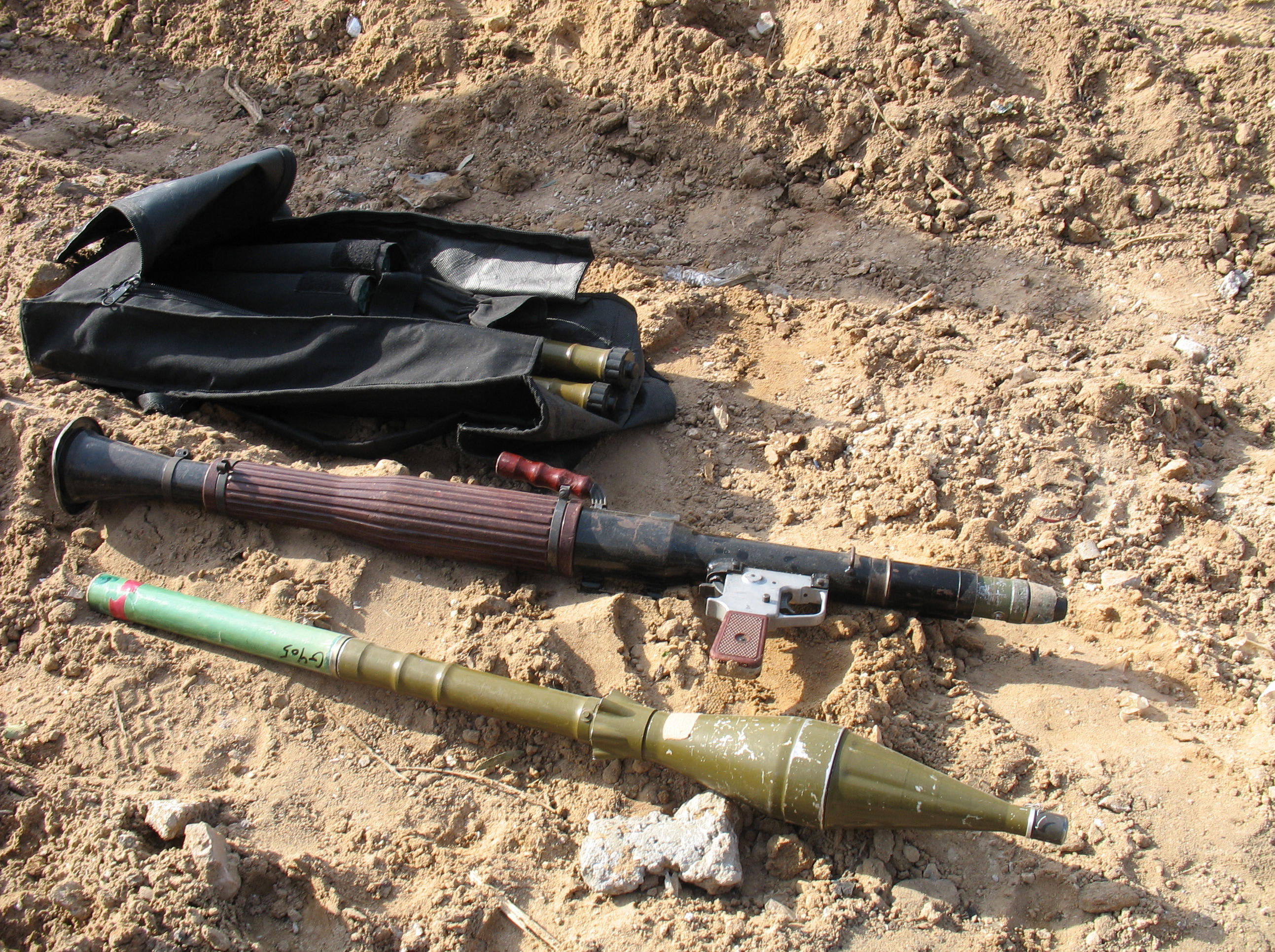 January 7, 2009 During Operation Cast Lead in the northern Gaza Strip, Golani Brigade forces uncovered a weapons cache.